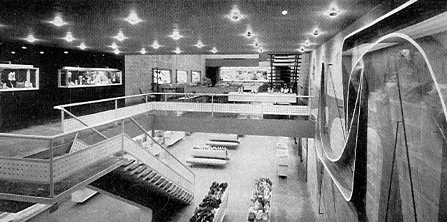 Peletería "California". Mario Romañach 1951.